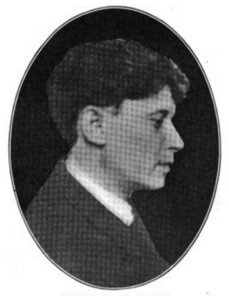 c.1905 photo of Frederic F. Faris, architect of Wheeling, West Virginia.